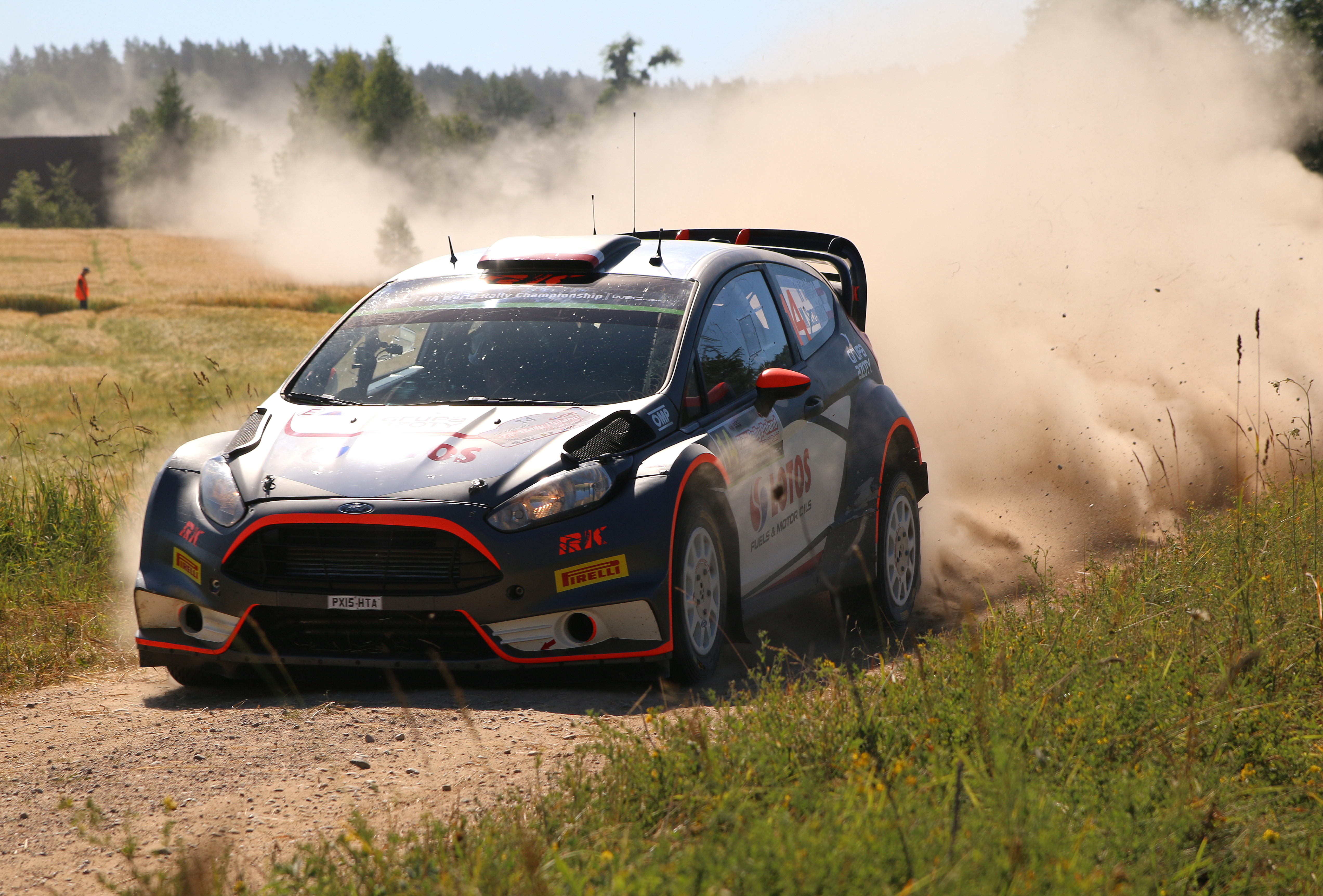 Robert Kubica, OS 10 Mazury, 72nd LOTOS Rally Poland